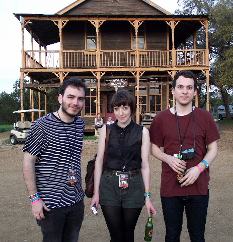 Daughter (band) - Remi Aguilella, Elena Tonra, Igor Haefeli (L to R) - Heartbreaker Banquet during South by Southwest 2012 at Willie Nelson's ranch (Luck, TX). Photo by Ron Baker.